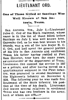 Lt. Jules G. Ord Obituary